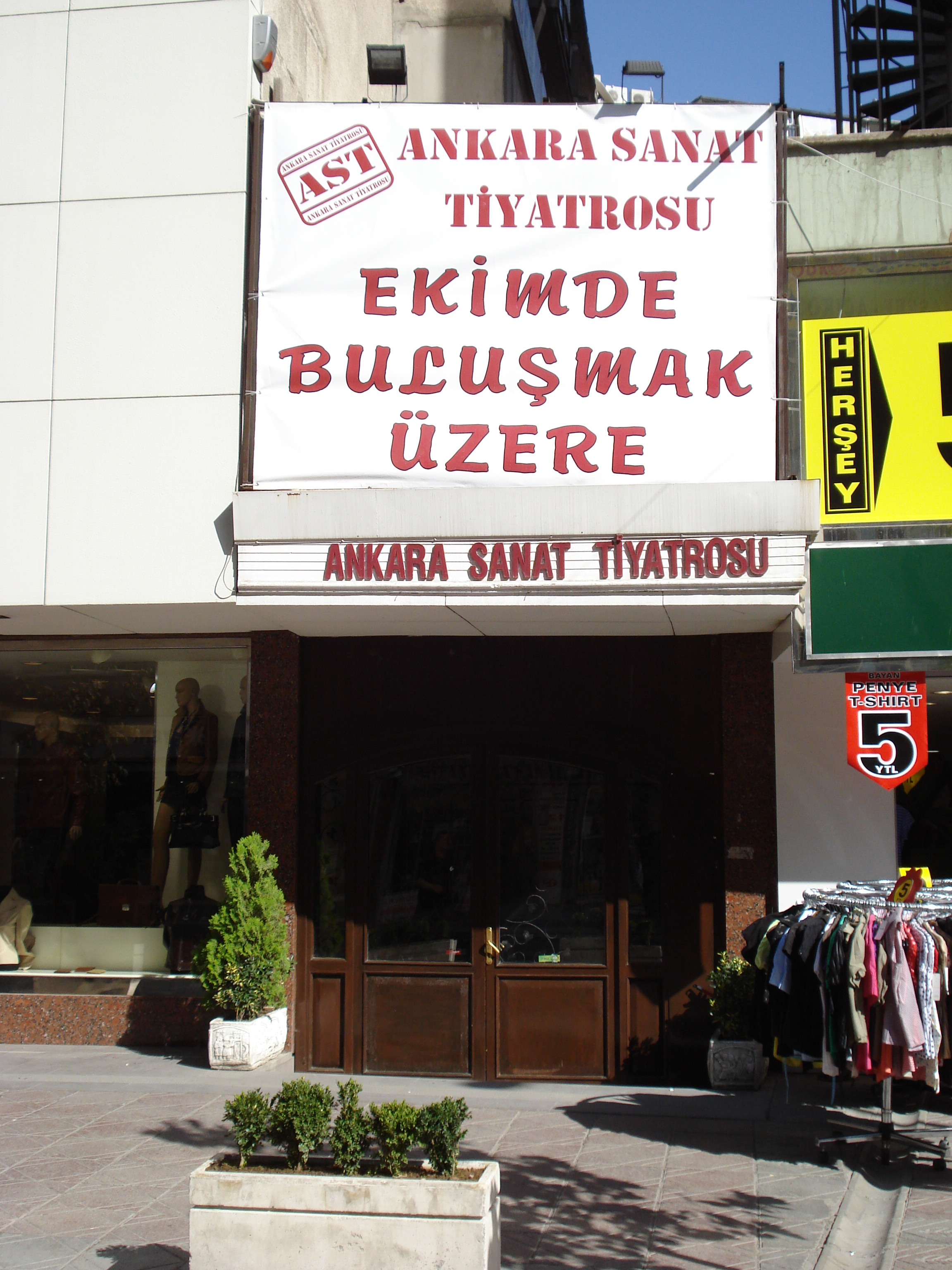 Ankara Sanat Theatre's entrance in Kızılay, Ankara.